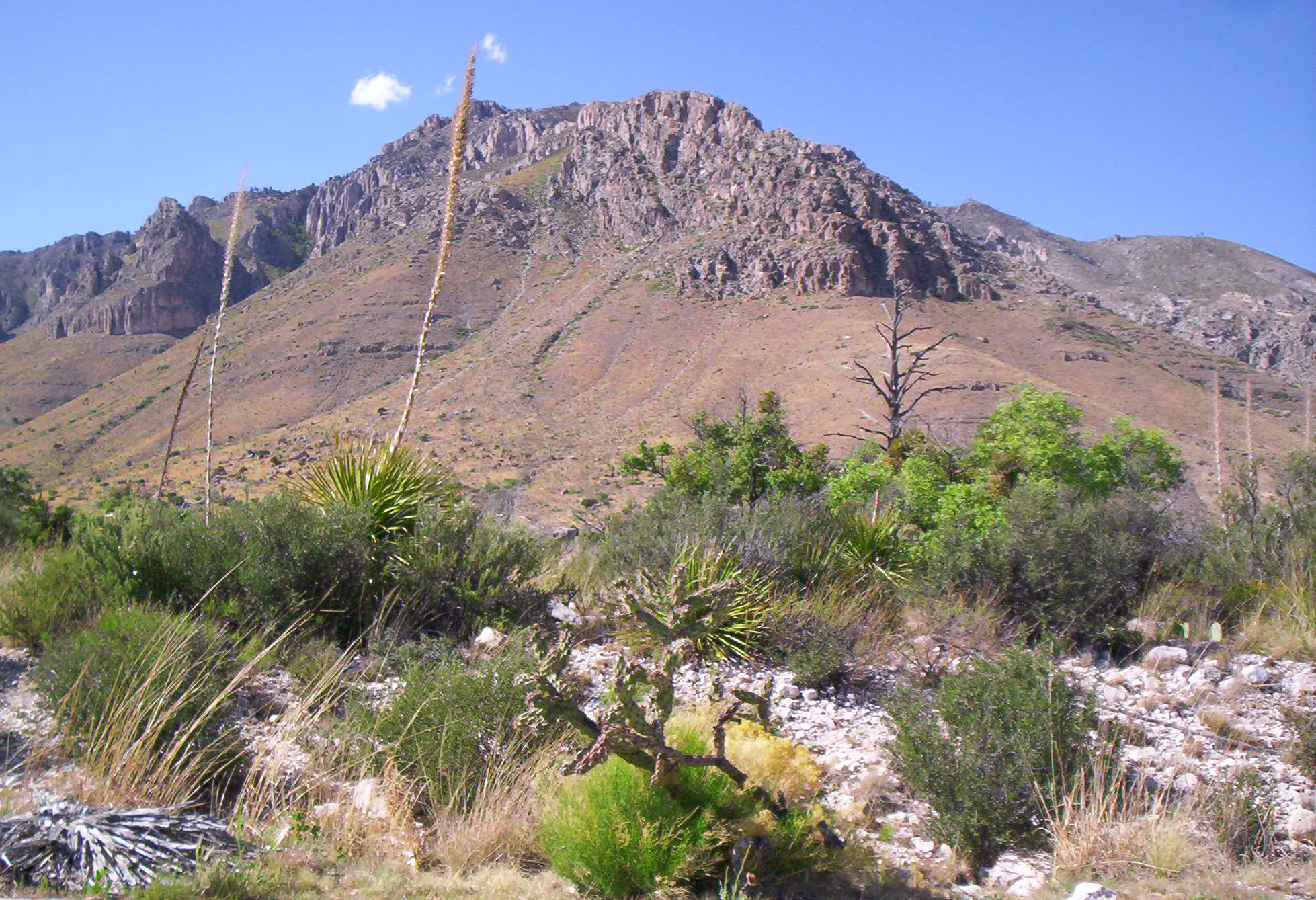 Hunter Peak in Guadalupe Mountains National Park, Texas